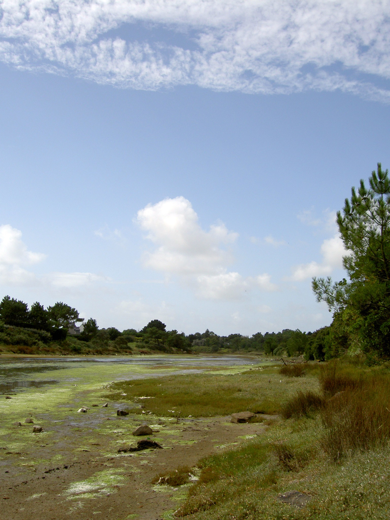 Steir, the ria of Plobannalec-Lesconil (France).